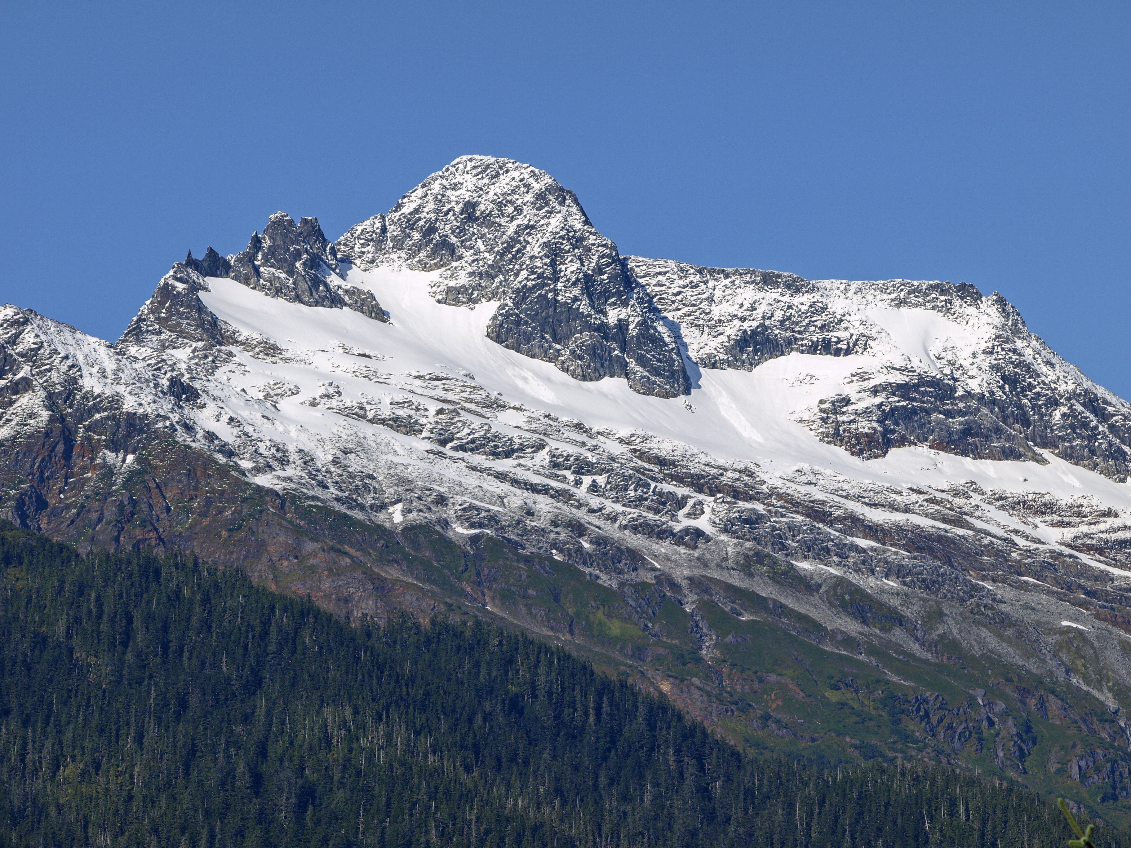 Mount Stroller White Termination Dust, above the Mendenhall Glacier, Juneau - Southeast Alaska.